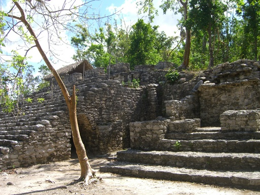 "the castle" at Cobá, group B, Yucatán